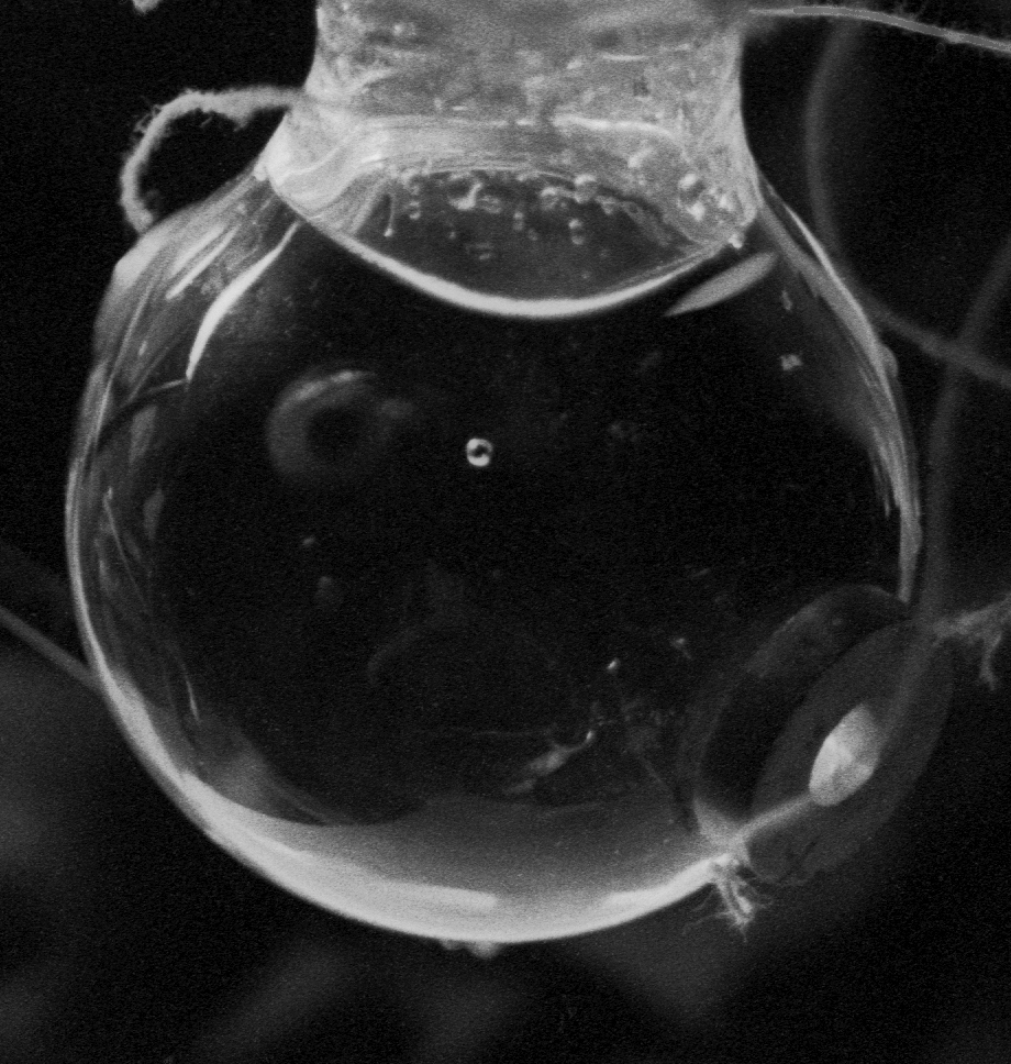 Cropped Image from